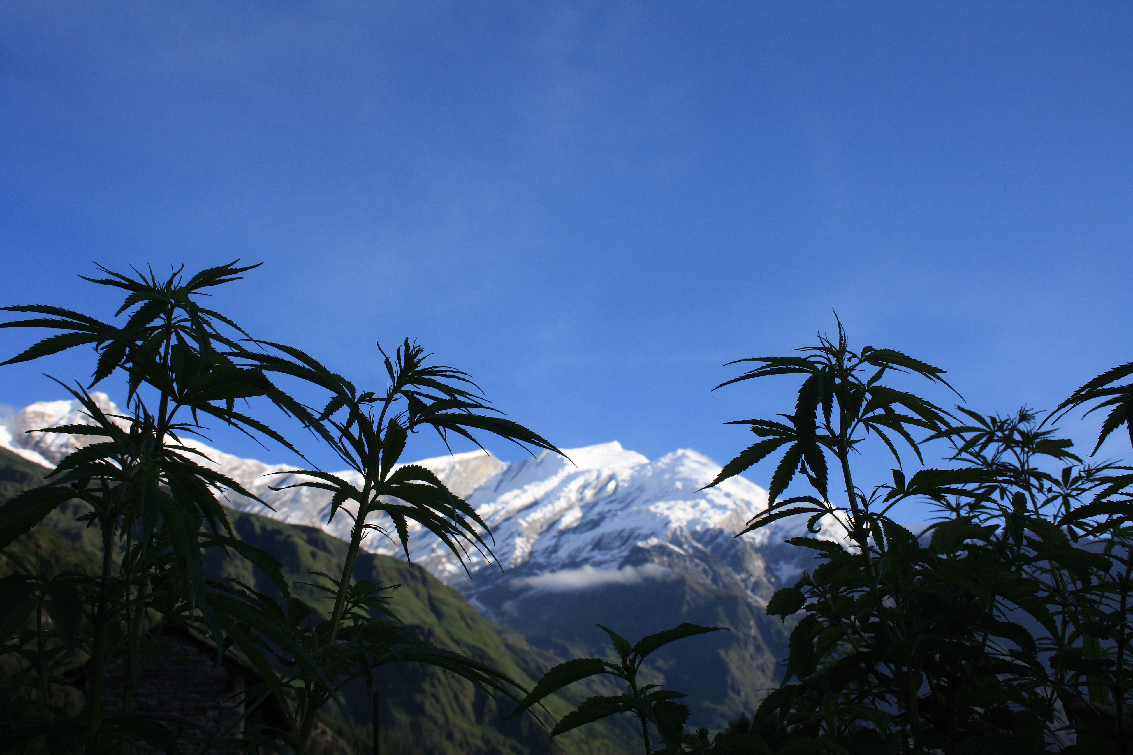 Cannabis plants growing at the village of Kalopani, Nepal. The snow-covered mountain in the background is the summit of Dhaulagiri.